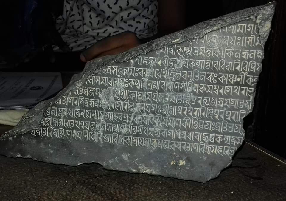 This fragmented stone inscription was excavated from Simroungarh (Simraungadh) on 15th May, 2018. The script used is Tirhuta and has information written from Karnata King Narsingh Dev with his minister Ramdatta Thakur.